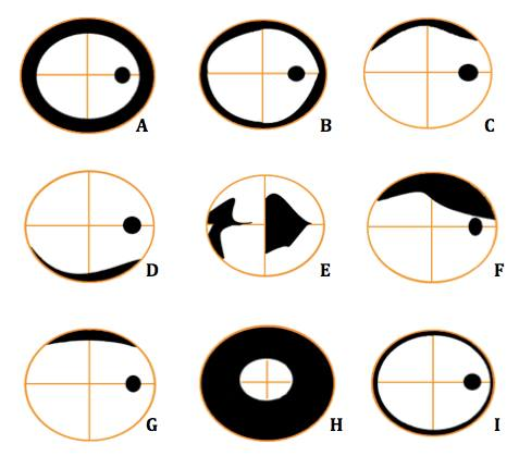 A: Aphakia B: Rim artefarct C: Chin slip D: Lens position E: Cornela opacity F: Keratoconus G: Ptosis H: pupil size 1 I: Pupil size 2